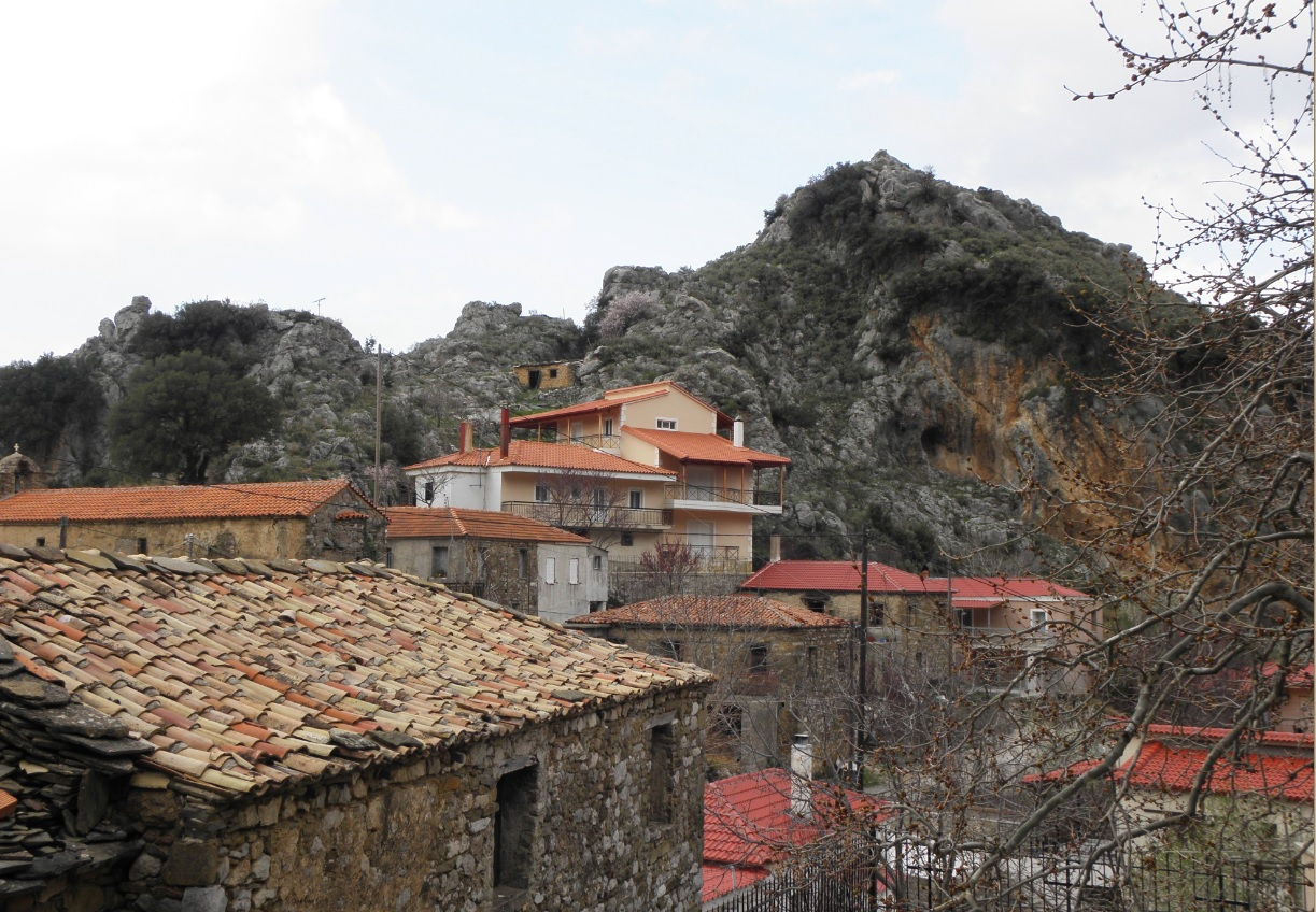 Partial view of Spartia village, Achaia, Greece.